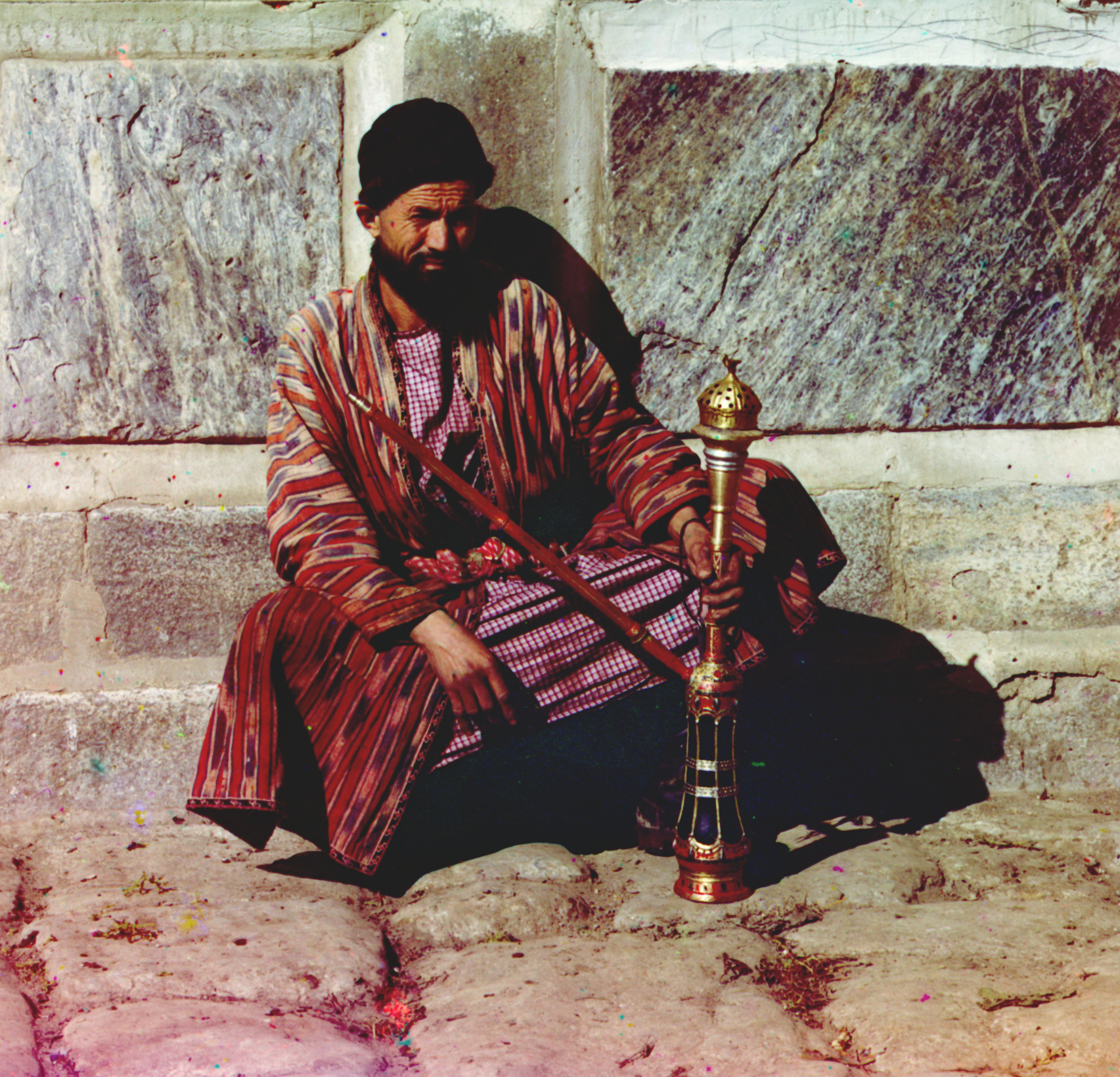 Man sitting and holding a hookah. Detail of the photography, taken between 1905 and 1915.